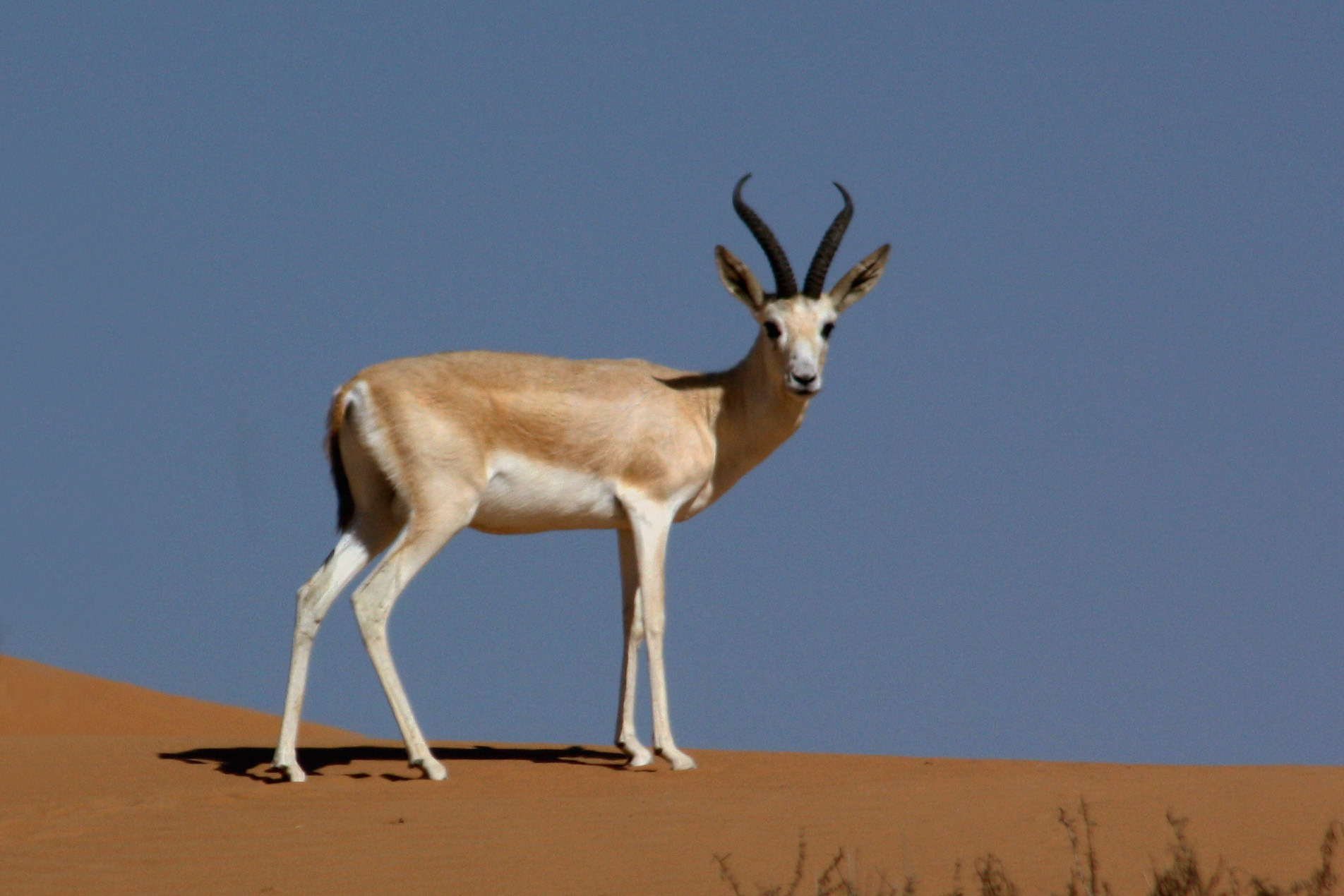 Arabian sand gazelle (Gazella marica) in the Dubai Desert Conservation Area, UAE. Previously categorized as Gazella subgutturosa marica